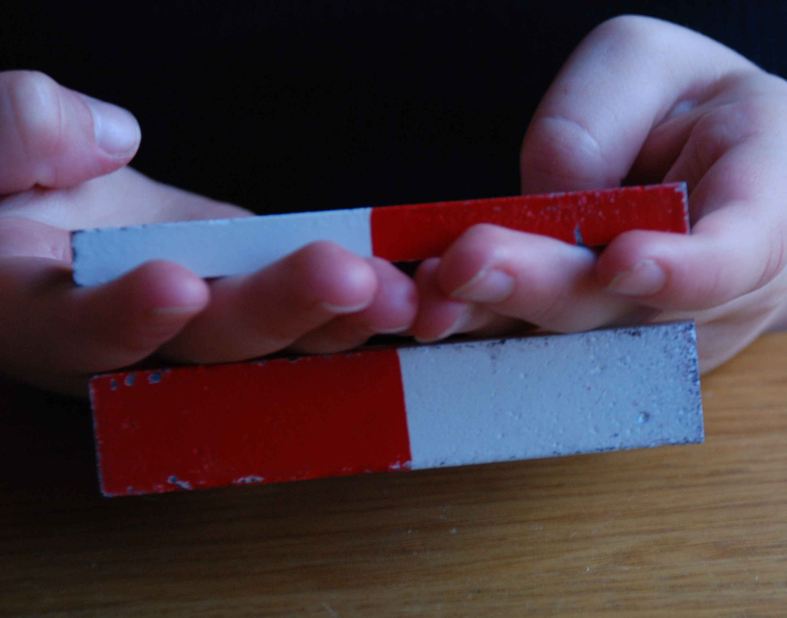 Opposite poles attract (my daughter's hands)